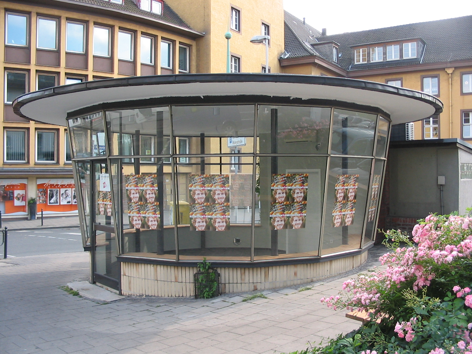 VHS Kiosk/Help-Kiosk, round kiosk building in Witten, Germany